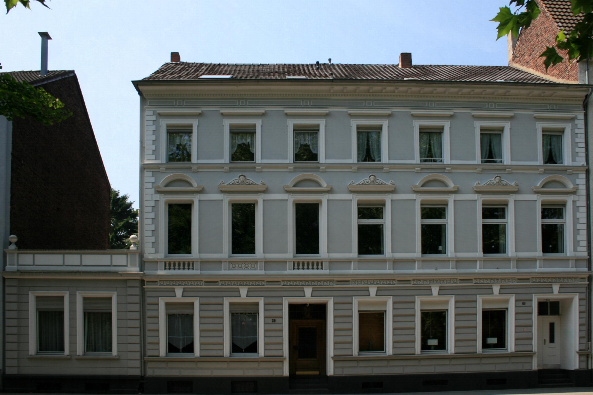 Cultural heritage monument No. B 080 in Mönchengladbach